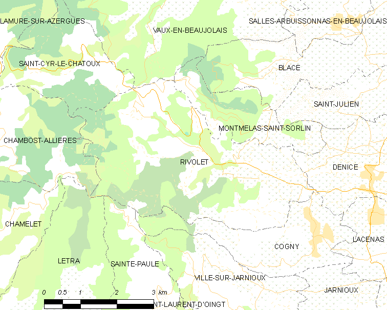 Map of French municipality